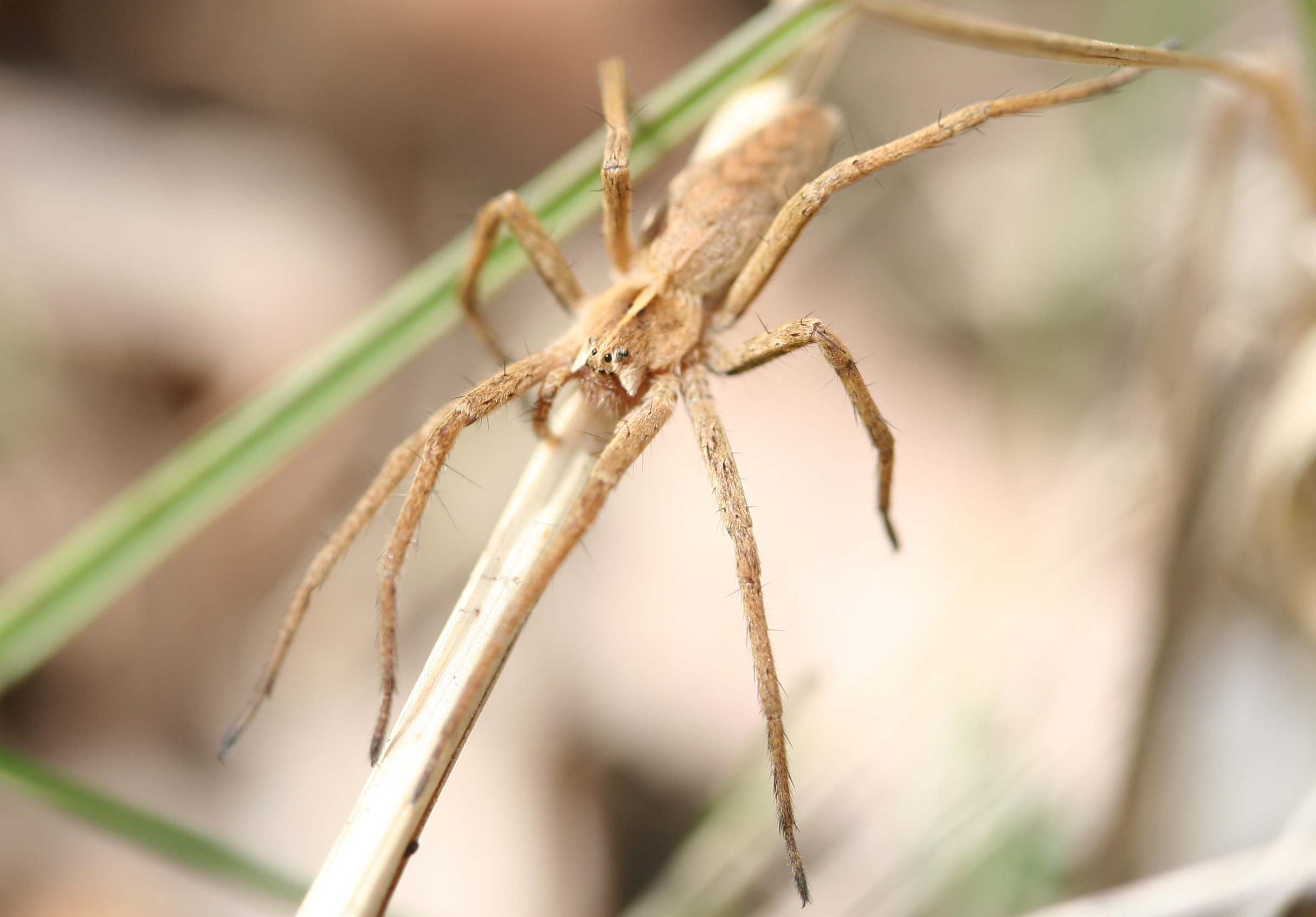 Pisaura mirabilis 29 april 2006 IJmuiden, the Netherlands